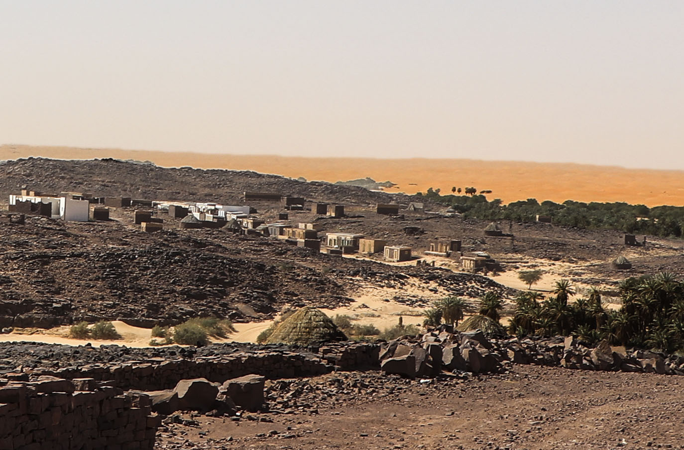 El-Meddah